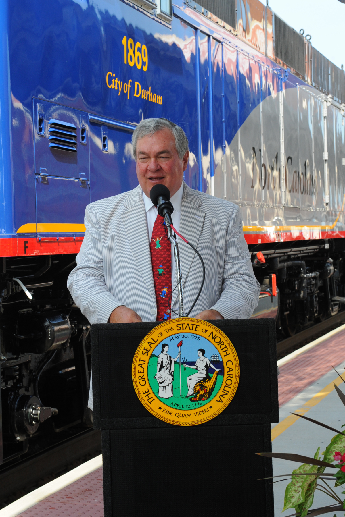 City of Durham Locomotive Christening Ceremony July 25: Secretary Gene Conti addresses the crowd gathered for the City of Durham Locomotive christening. NCDOT No. 1869 "City of Durham" locomotive, type F59PH